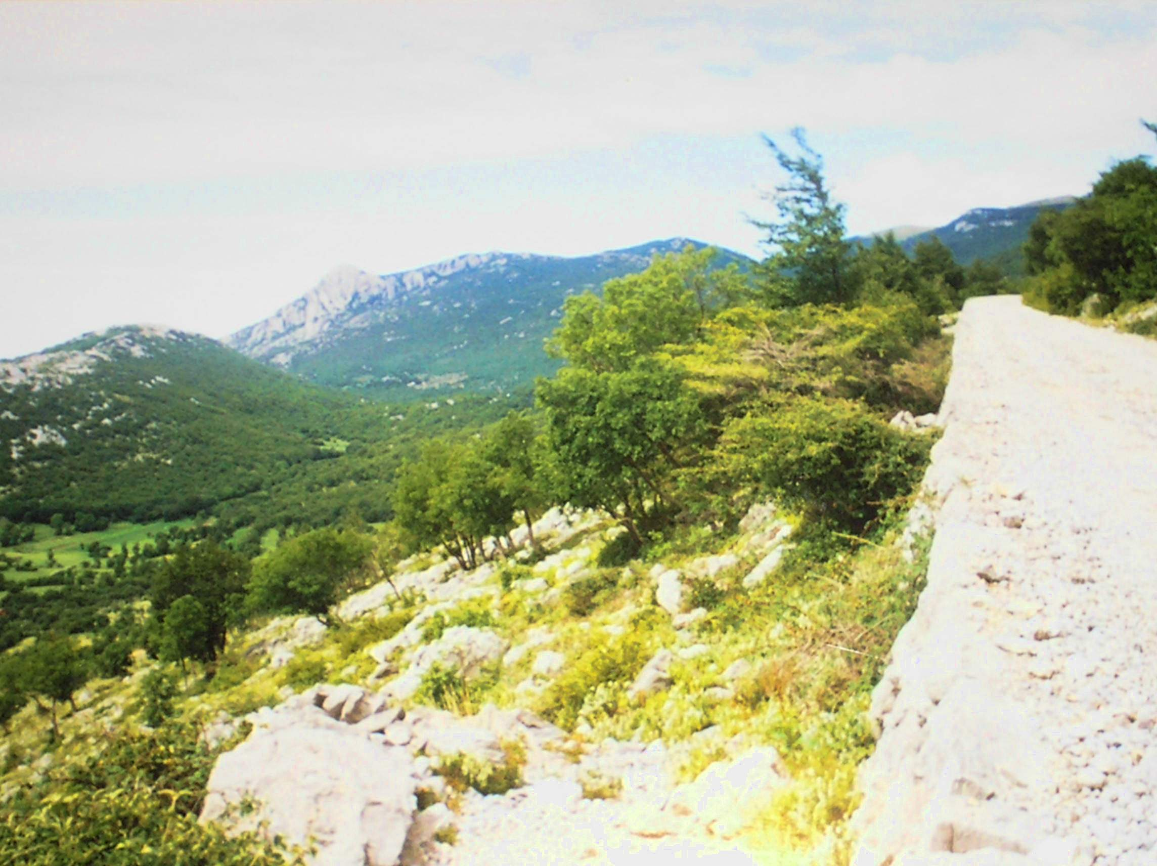 Mountain Velebit, karst valley DabarHrvatski: Velebit, krška dolina Dabar na srednjem Velebitu